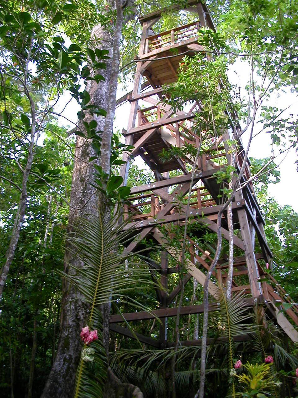 Tower leading to the canopy walkway in Falealupo on the island of Savai'i in Samoa.